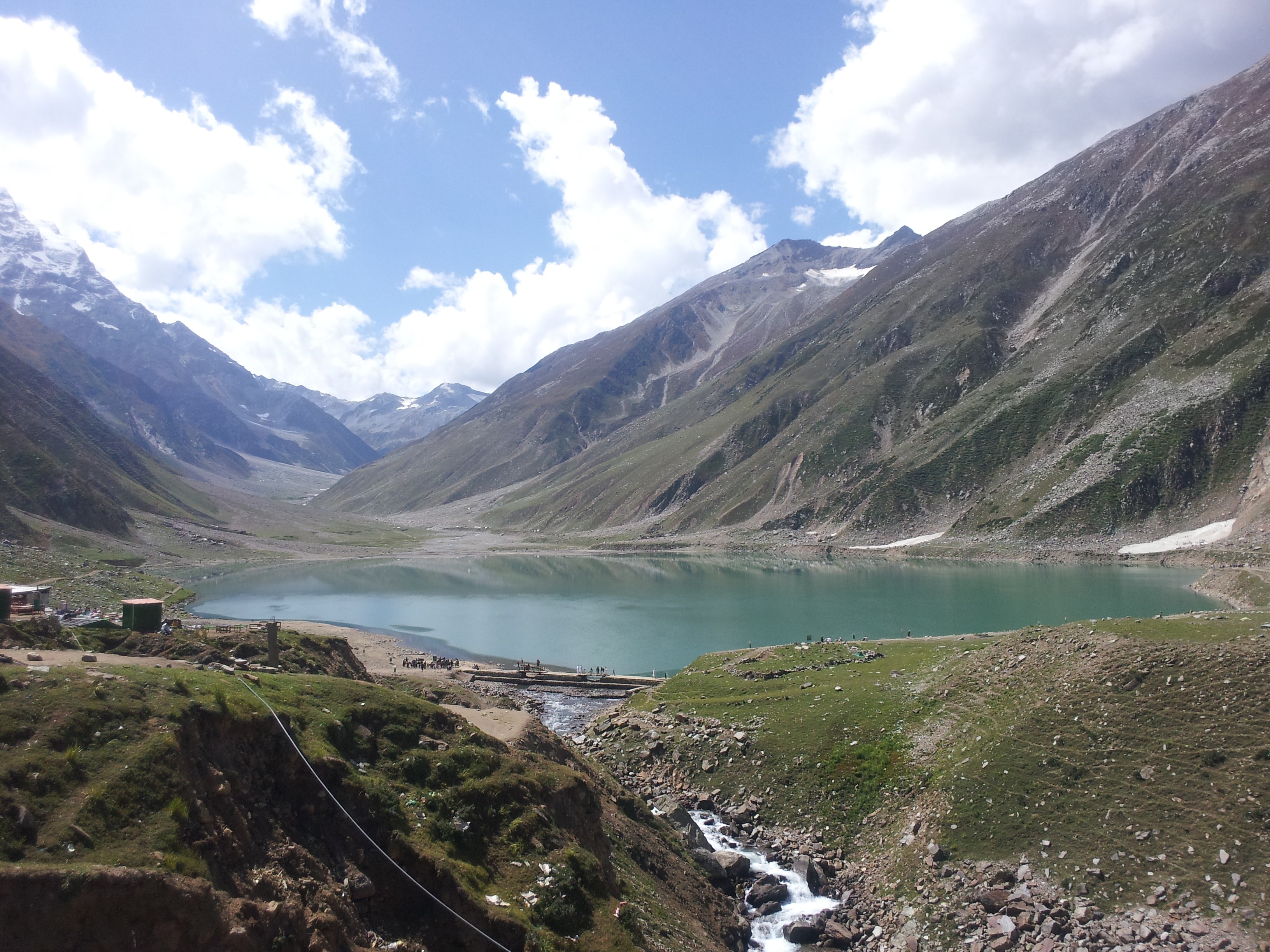 Lake Saiful Malook view 01